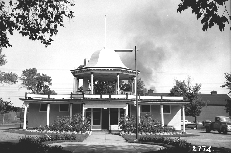 ca. 195- Photograph black and white negative The building that housed Gurney's Museum was built as a bandstand, no more than a platform with a railing. By 1909 several improvements had been made, and the building was now a two storey structure with a bandstand on the upper level, and a glass fronted room at ground level. The bandstand was reached by a set of stairs on the outside of the building. The ground floor was now occupied by the Board of Trade, and became known as the Board of Trade Building. The building was originally located about 30 metres inside the west boundary of Galt Gardens, opposite 118 - 5 Street South. In 1911 the building was moved to a location halfway along the north boundary of the park. In June 1912 two wings were added. In February 1922 the Board of Trade Building suffered a fire, but was repaired and was used until 1944, when the Board of Trade moved to the Marquis Hotel. Walter Gurney and his wife then applied to lease the building to house their museum, and it became Gurney's Museum until 1961. On 28 August 1961 the building was demolished. Sources: Johnston, Alexander. Lethbridge Galt Gardens Park. Occasional Paper No. 22, Lethbridge Historical Society, 1988 Dogterom, Irma. Where Was It? A Guide to Early Lethbridge Buildings. Occasional Paper No. 35, Lethbridge Historical Society, 2001 To obtain high quality and larger reproductions of this image please visit the Galt Museum & Archives website: and include thIs number in your request: 199710803232